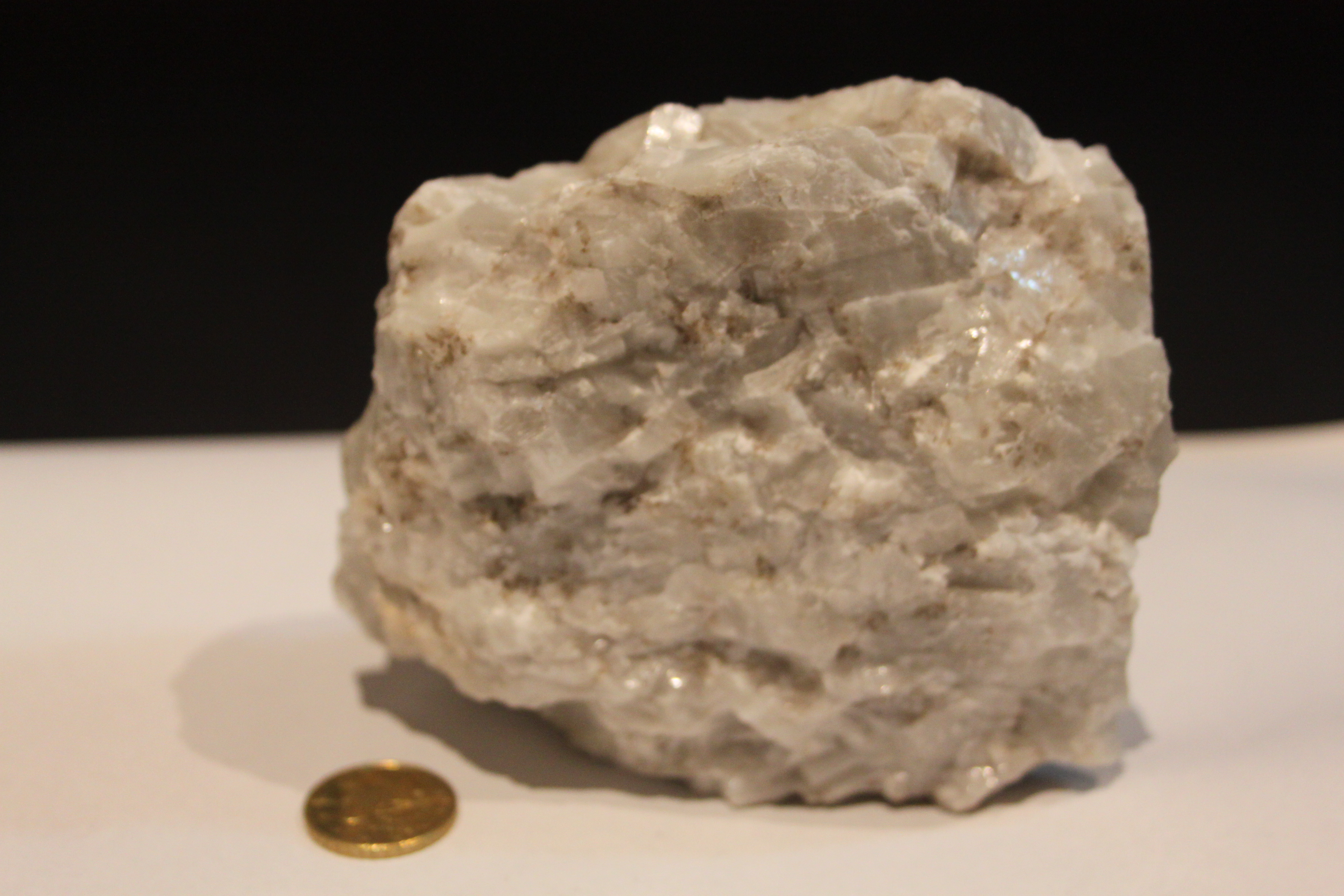 Calcite, Gualba quarry, Montseny (Catalonia)